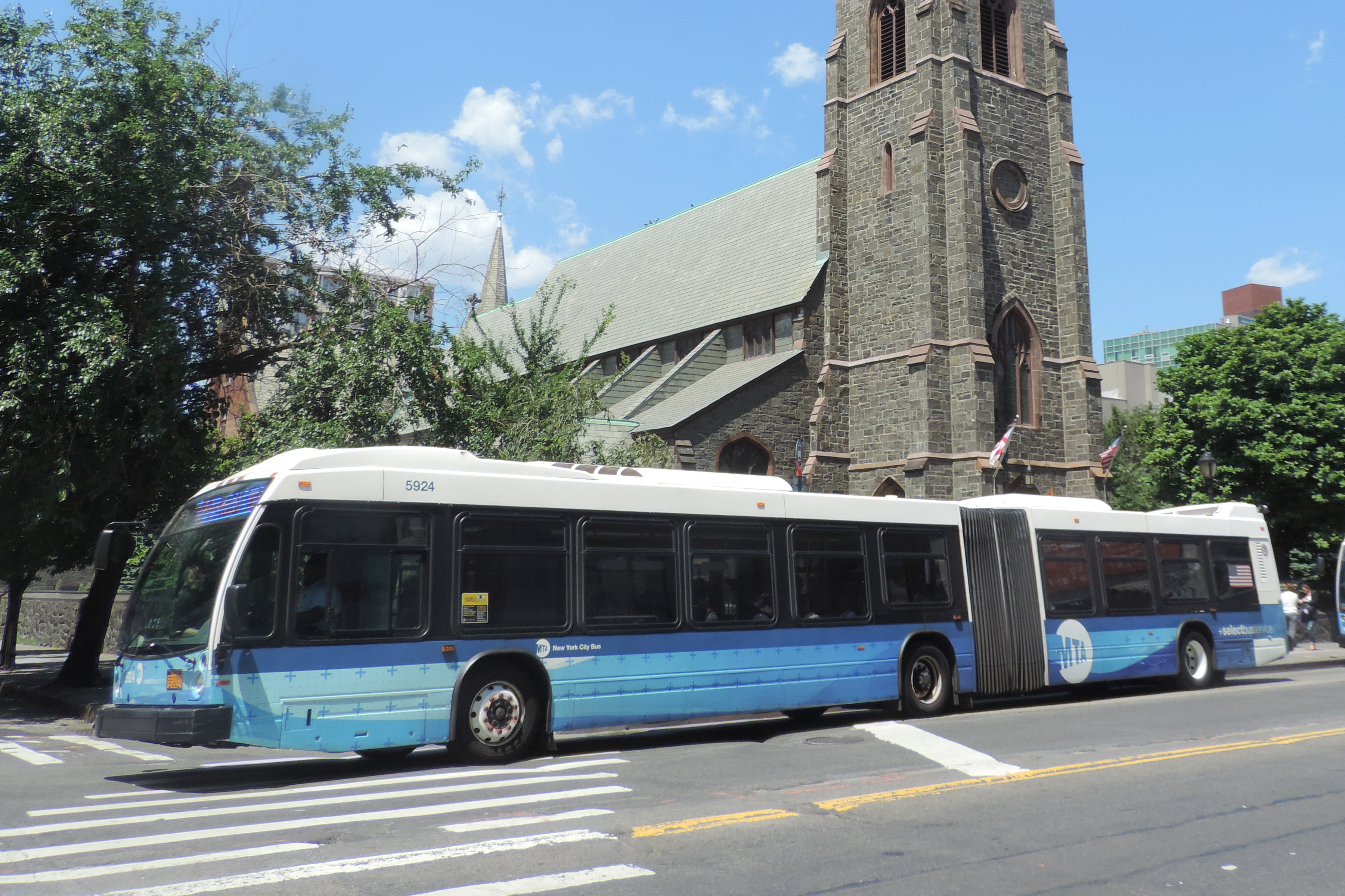 Looking west across Main Street at Q44 bus on a sunny midday.